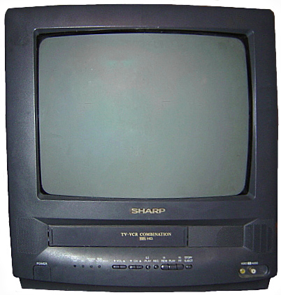 Sharp TV/VCR combo deck.